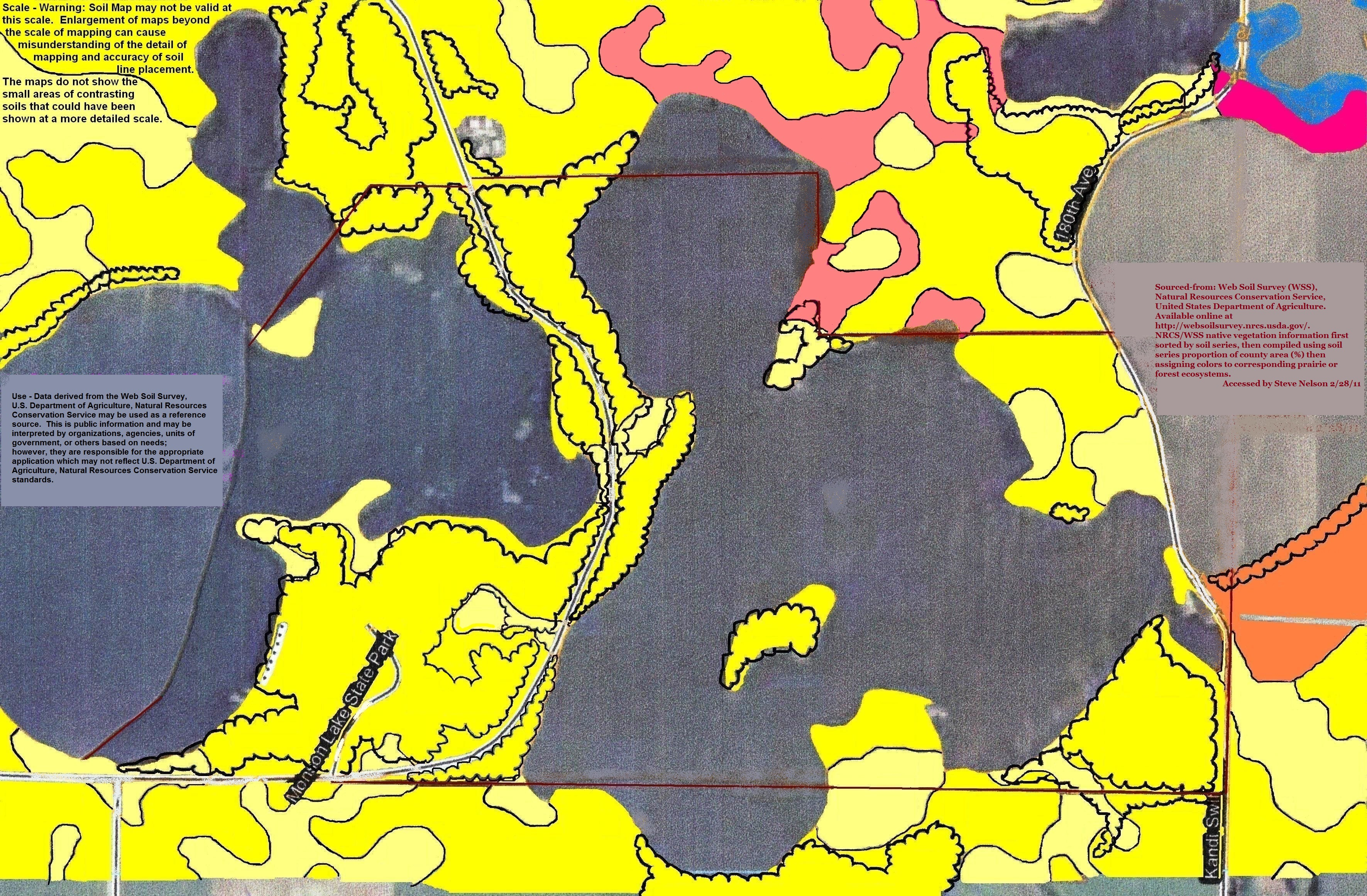 Colored map shows soils of the Monson Lake State Park area in eastern Swift County Minnesota.